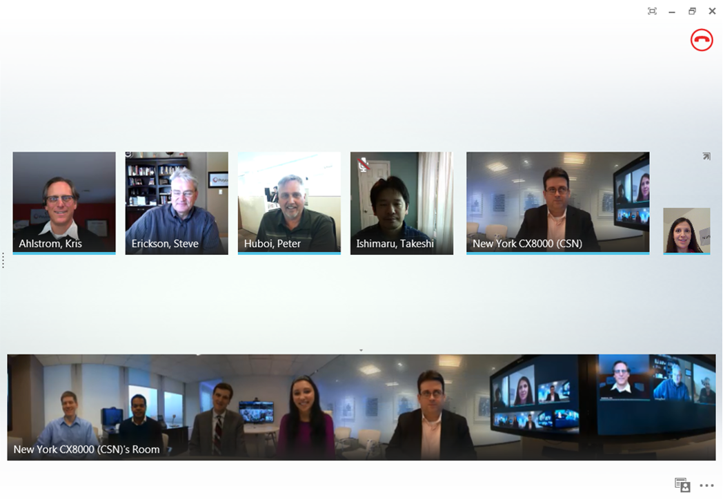 a 360-degree panoramic view from the Polycom CX5100 is displayed in the lower portion of the Skype for Business video meeting client view. The microphones triangulate to locate the active speaker and that portion of the panoramic view is also presented as the active speaker in the participants shown in the top portion of the Skype for Business video meeting.